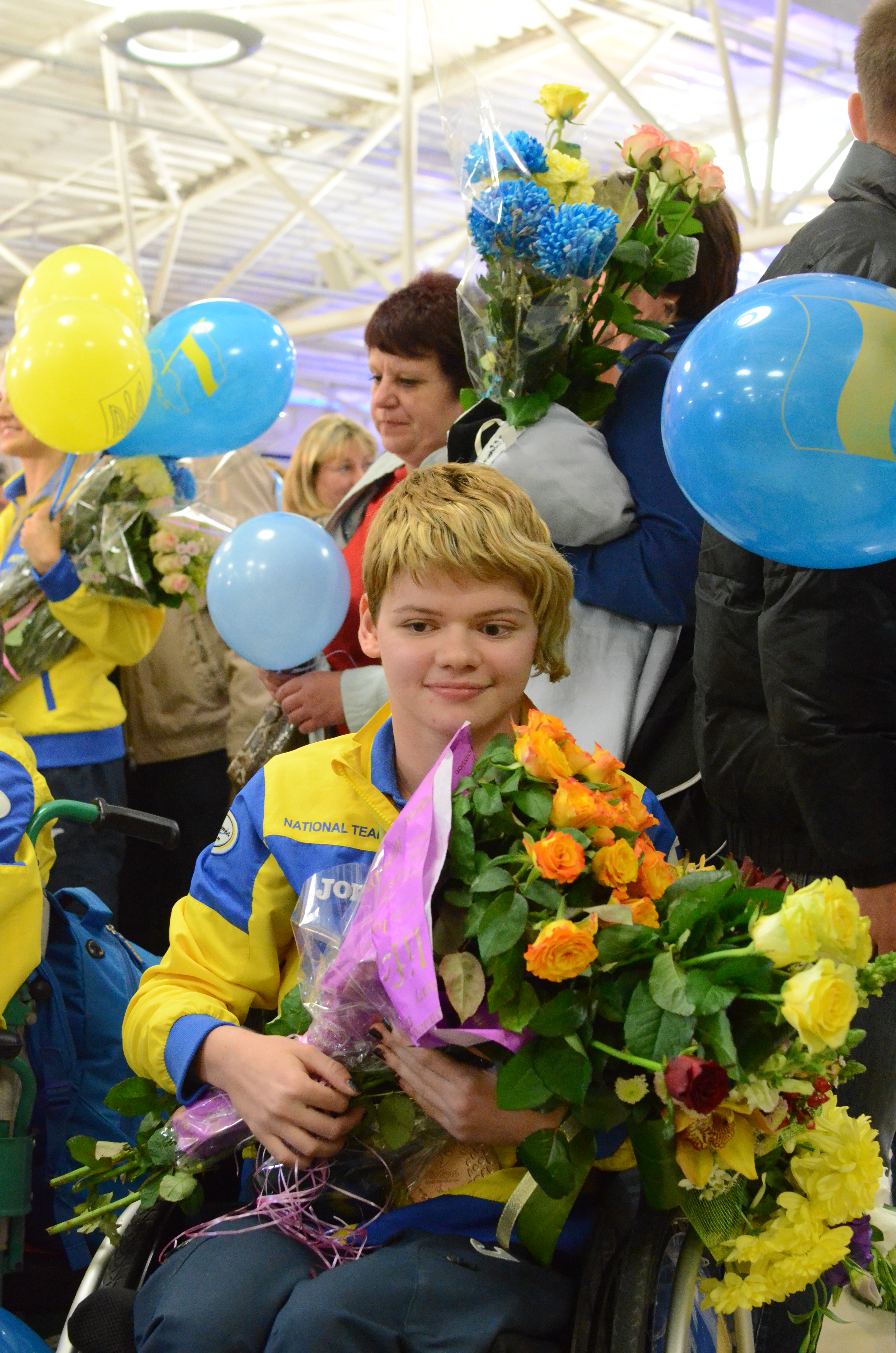 Ukrainian National Paralympic team welcomed at Boryspil (September 21, 2016). On picture: Maryna Verbova